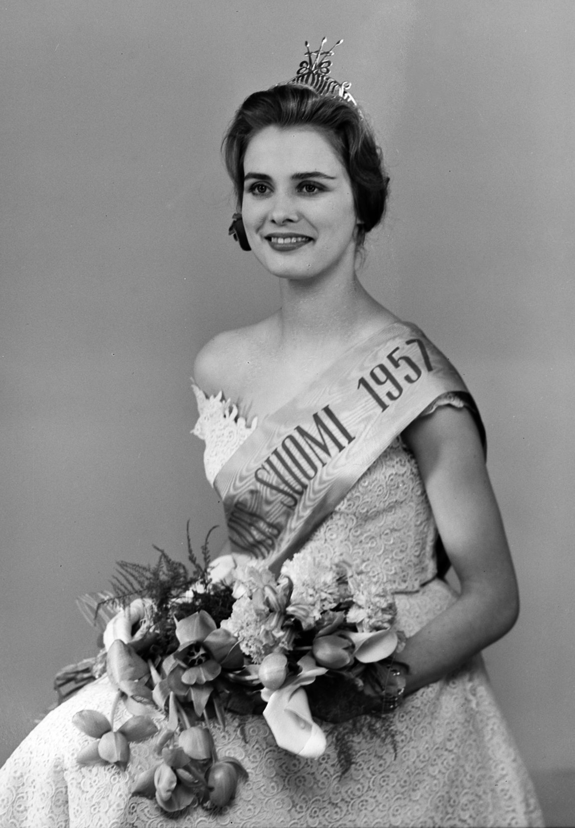 Marita Lindahl in 1957.